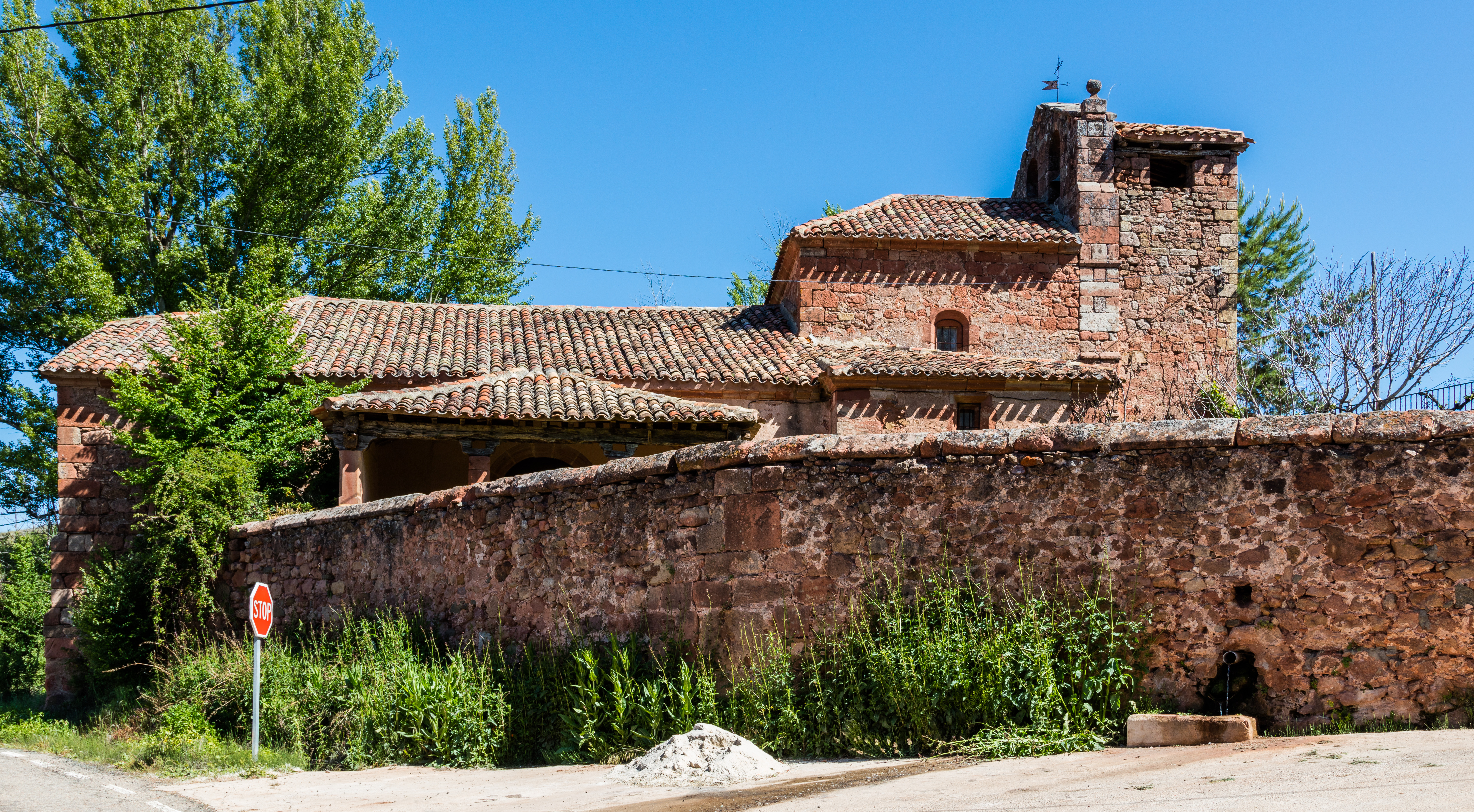 Church of the Assumption, Alpedroches, Guadalajara, Spain